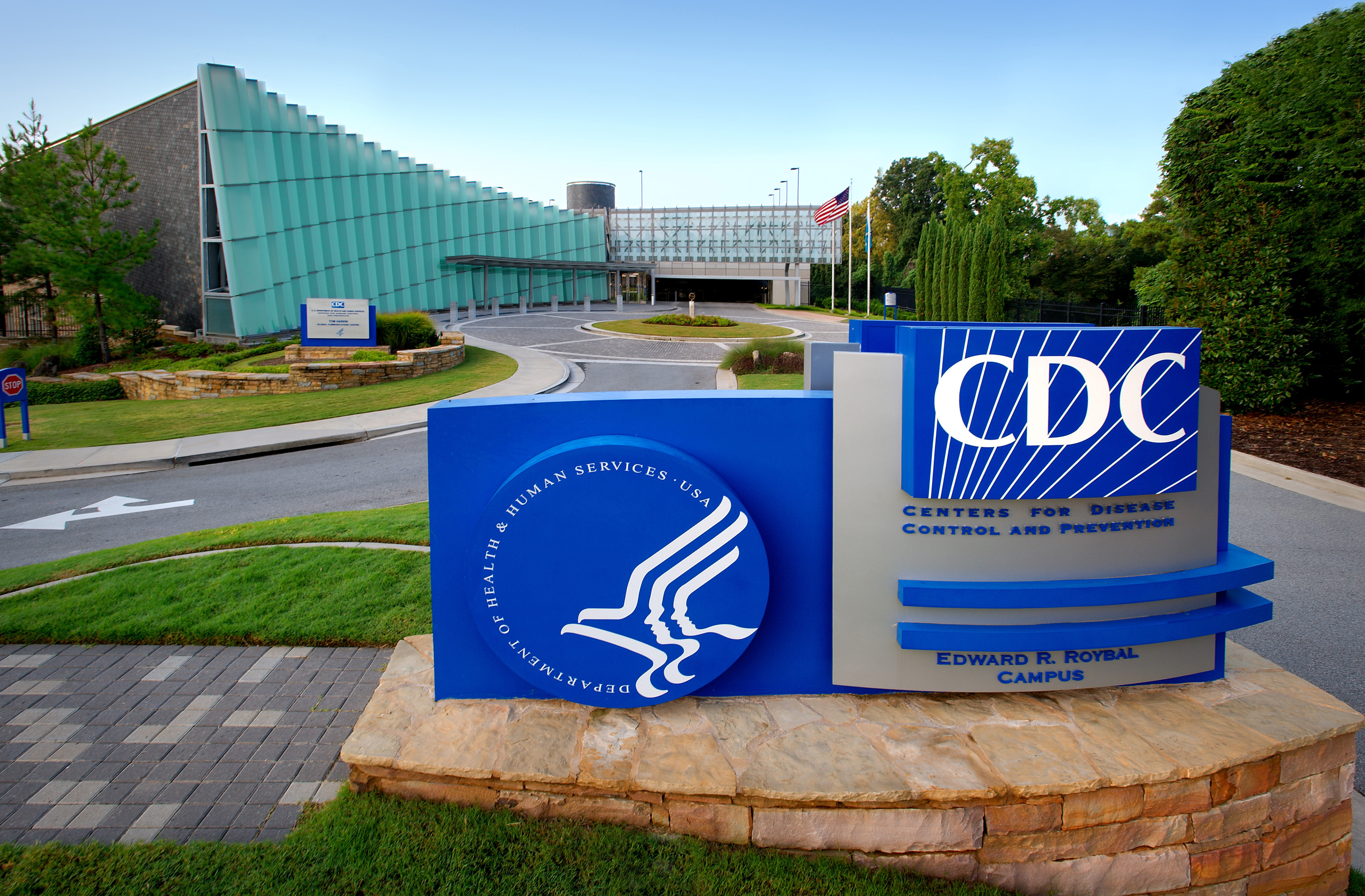 photograph of the exterior façade of the David J. Sencer CDC Museum in Atlanta, GA